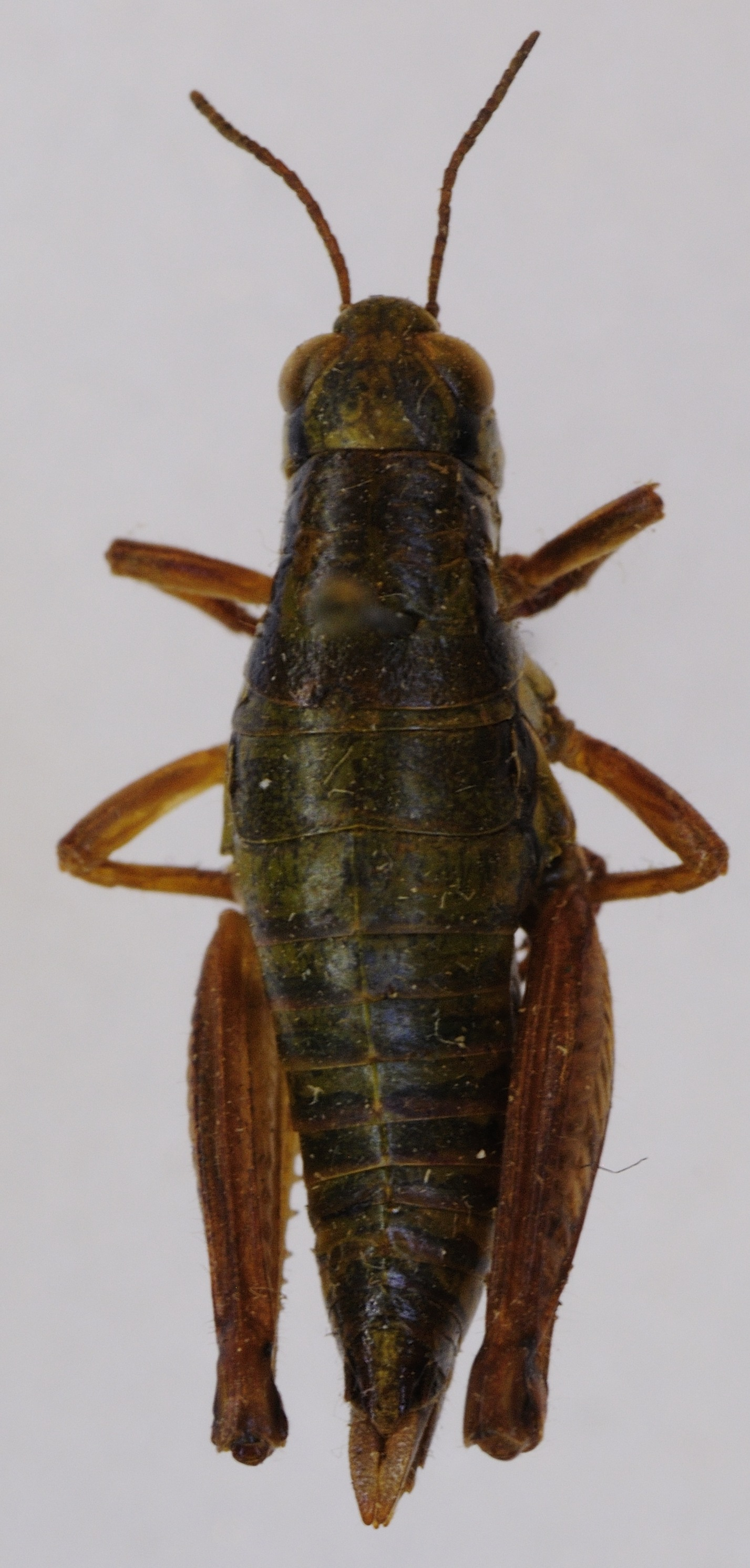 Pseudoprumna baldensis (Krauss, 1883) Fundort: I, Monte Baldo, VIII 1921; leg.: Ramme-Spaney S.G., det.: K. Harz Zoologische Staatssammlung München This picture was taken by Wikipedians in Zoologische Staatssammlung München (ZSM). The specimen belongs to the collections of ZSM.